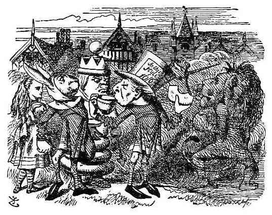 Bolvans snip sipping tea from a mug